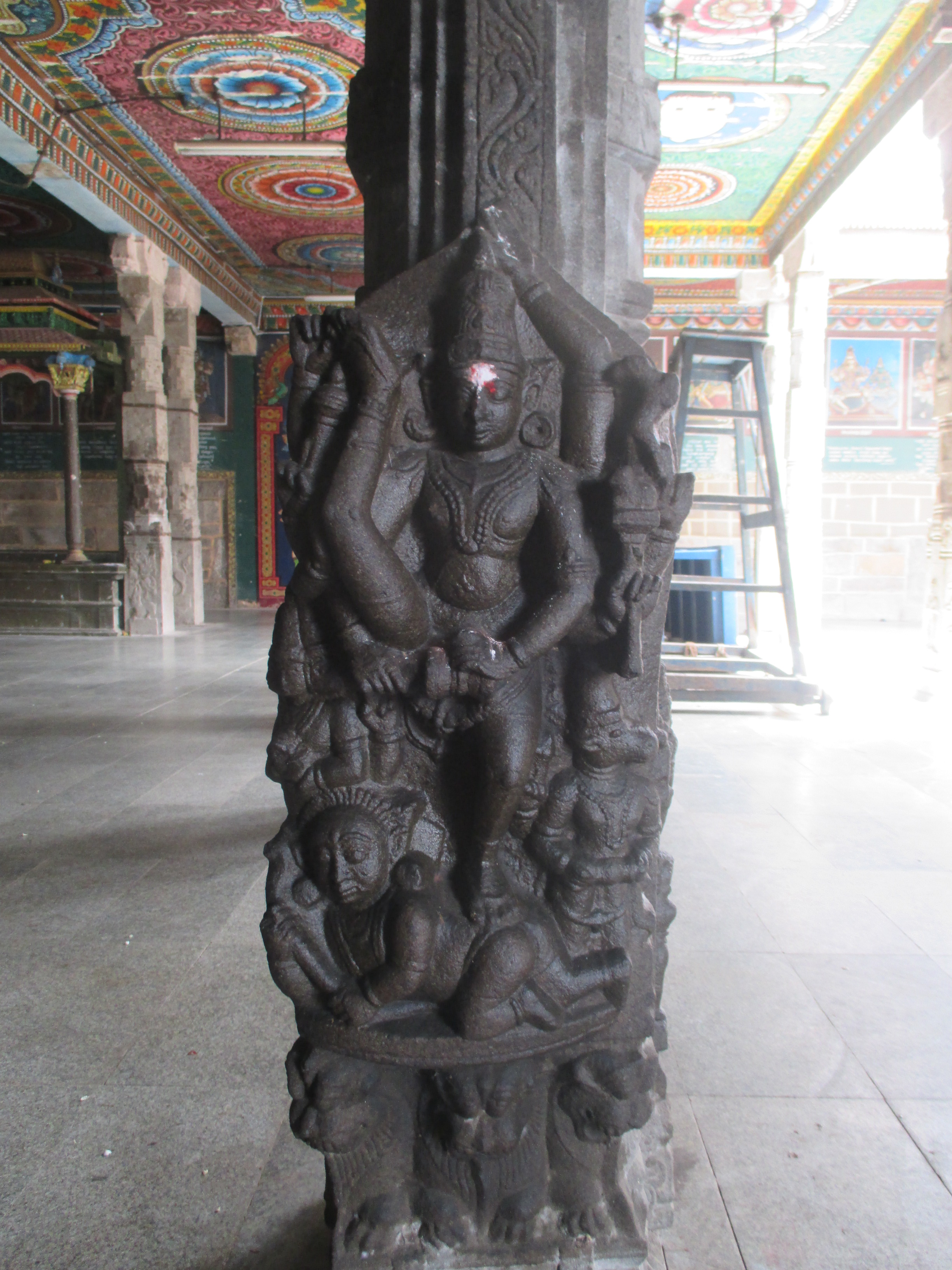 Thayumanavar Temple